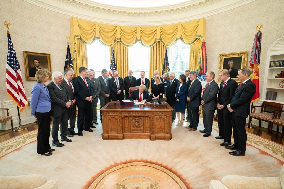 President Donald J. Trump, joined by Rep. Debbie Dingell, D- Mich., signs S.47: The John D. Dingell, Jr. Conservation, Management and Recreation Act Tuesday, March 12, 2019, in the Oval Office of the White House. | Official White House Photo by Shealah Craighead